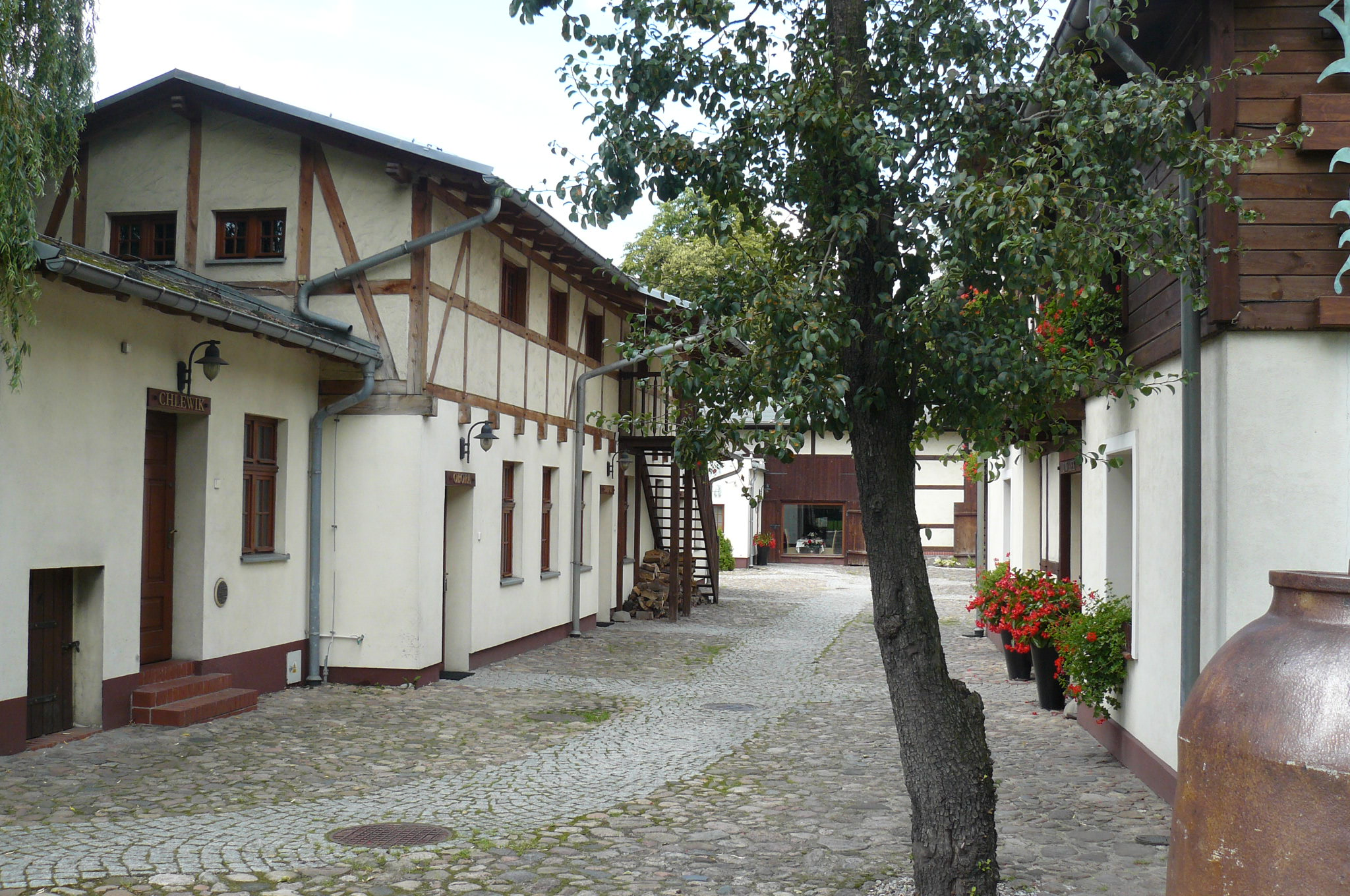 Poznań, Kościelna street. The old rural buildings. Remains of ancient settlements from Bamberg.